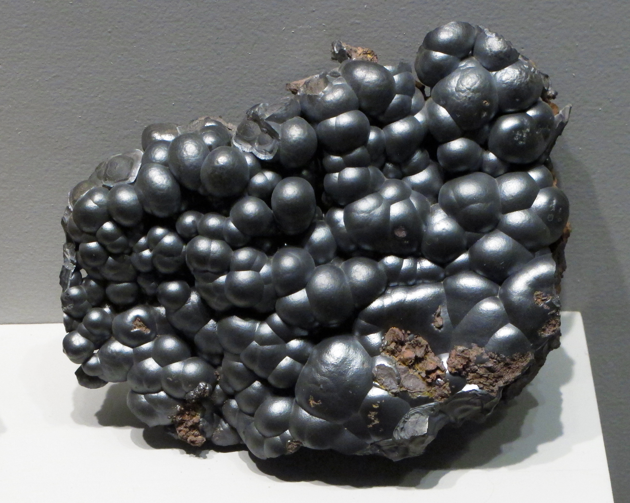 Romanechite from the Marquette County, Michigan, USA. Picture taken at the "National Museum of Natural History, Washington D.C, USA.